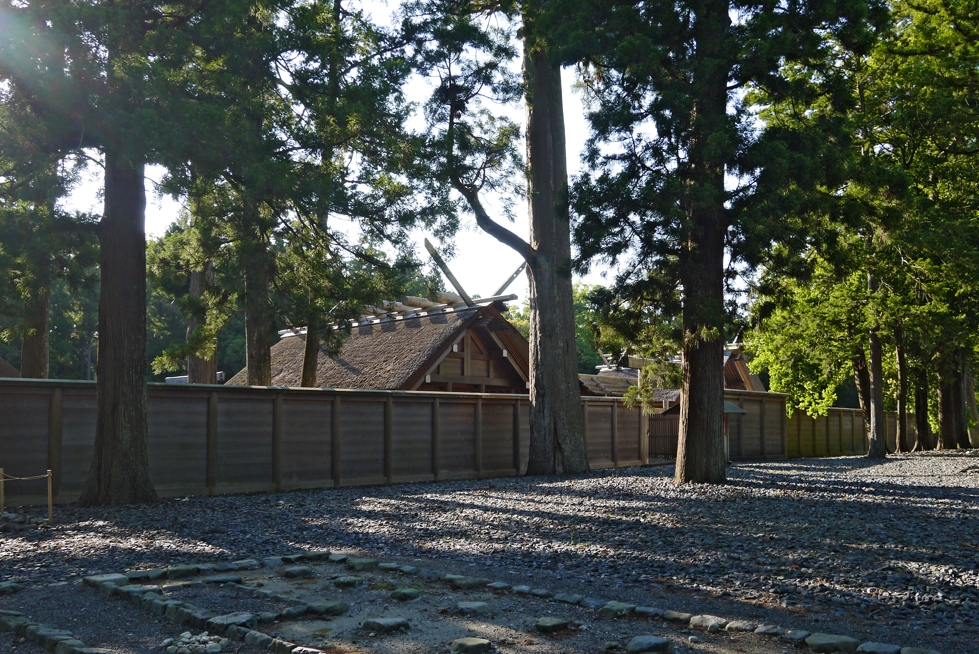 Geku, Ise-jingu Grand Shrine, Ise, Mie prefecture, Japan Panasonic Lumix DMC-GF5